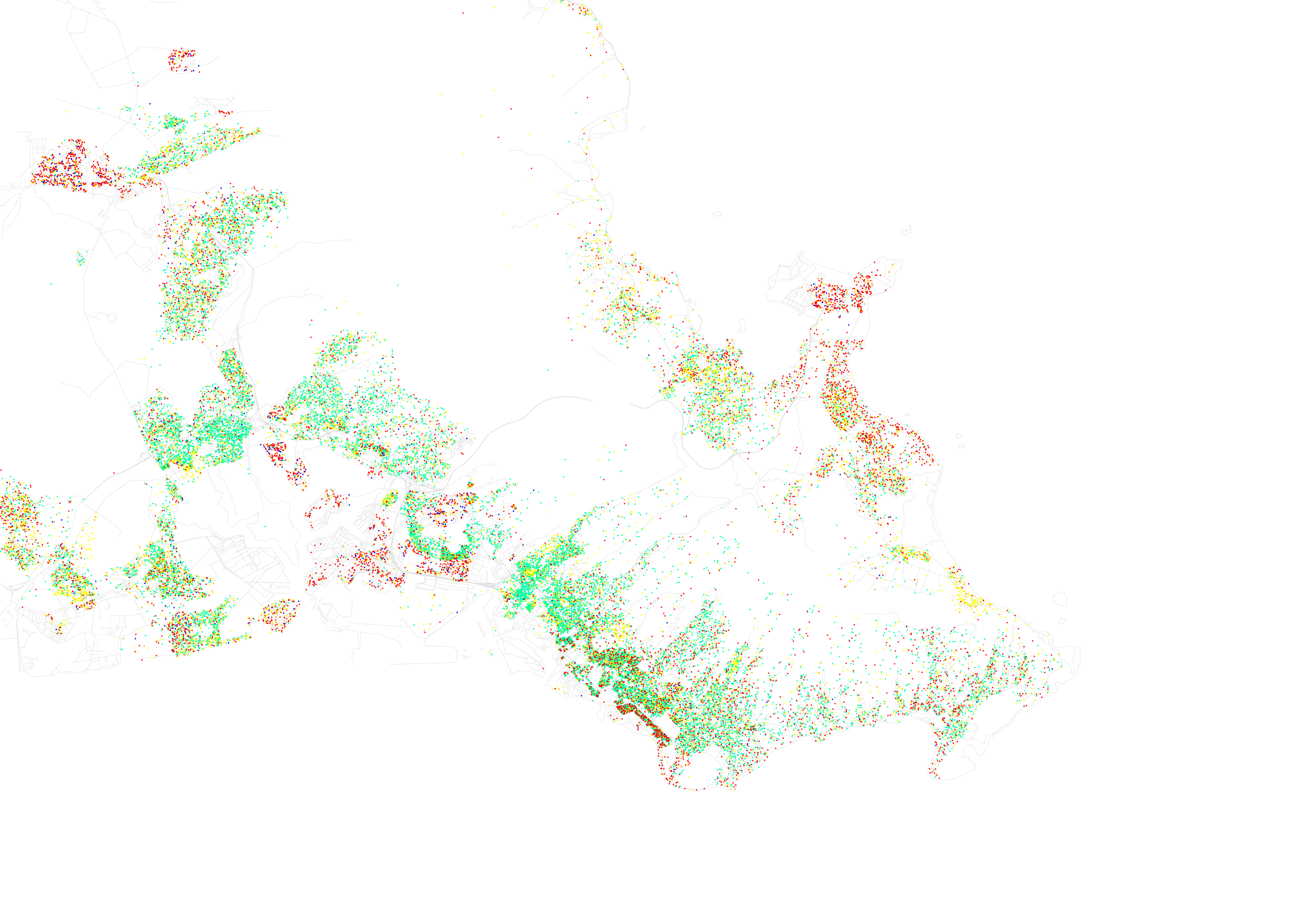 Maps of racial and ethnic divisions in US cities, inspired by Bill Rankin's map of Chicago, updated for Census 2010. Red is White, Blue is Black, Green is Asian, Orange is Hispanic, Yellow is Other, and each dot is 25 residents. Data from Census 2010. Base map © OpenStreetMap, CC-BY-SA